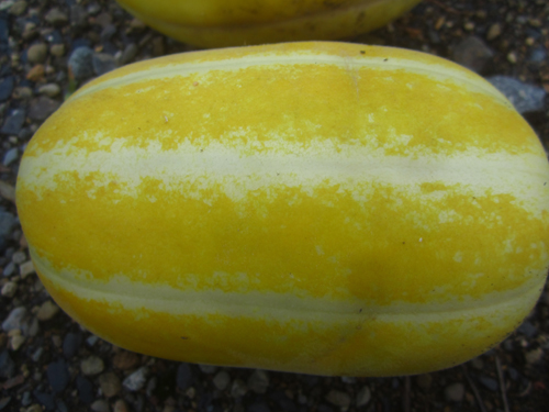 Ginsen Japanese Oriental melon cultivar – originates in the San-in region – The flesh is firm, and very sweet.